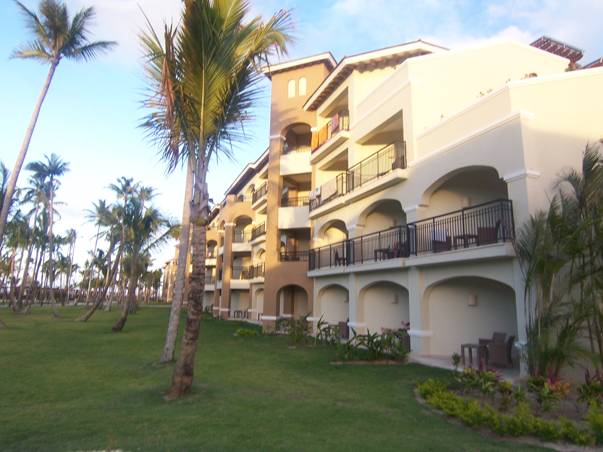 EdenH Room Building